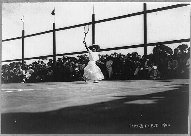 Hazel Hotchkiss